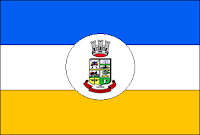 Flags of the city of Catuípe, Rio Grande do Sul, Brazil.